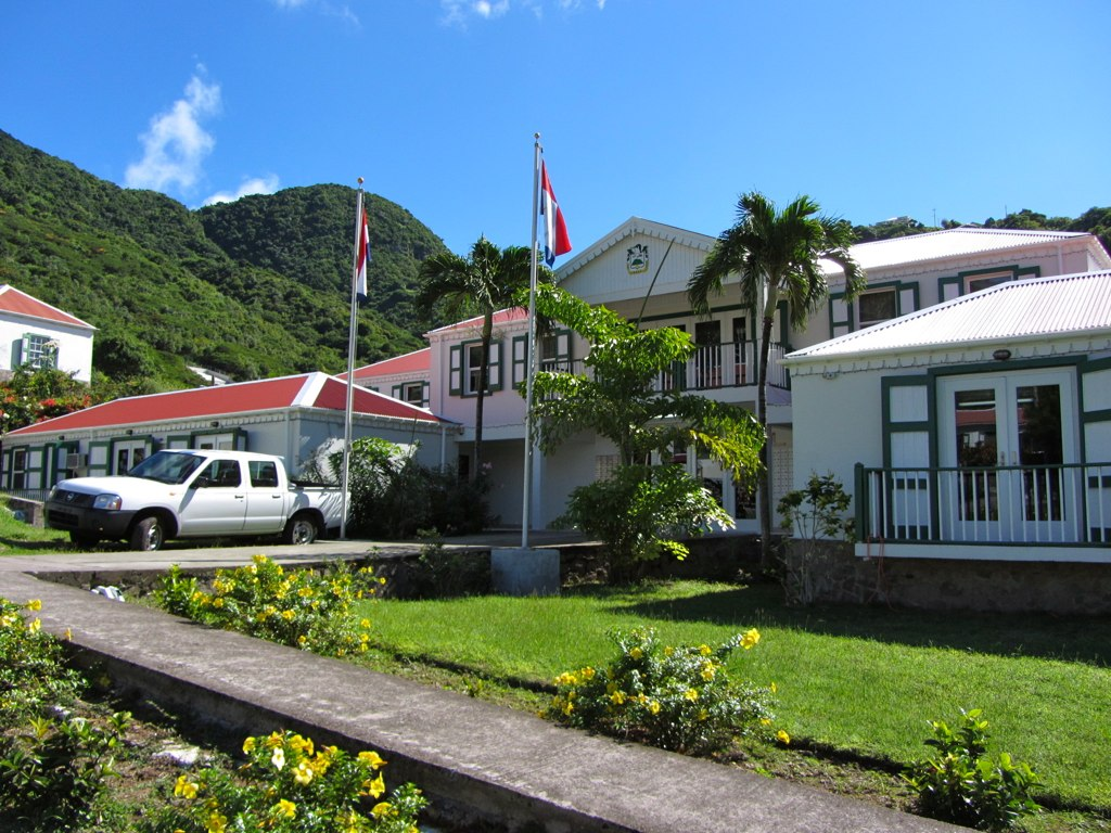 Saba's Government House